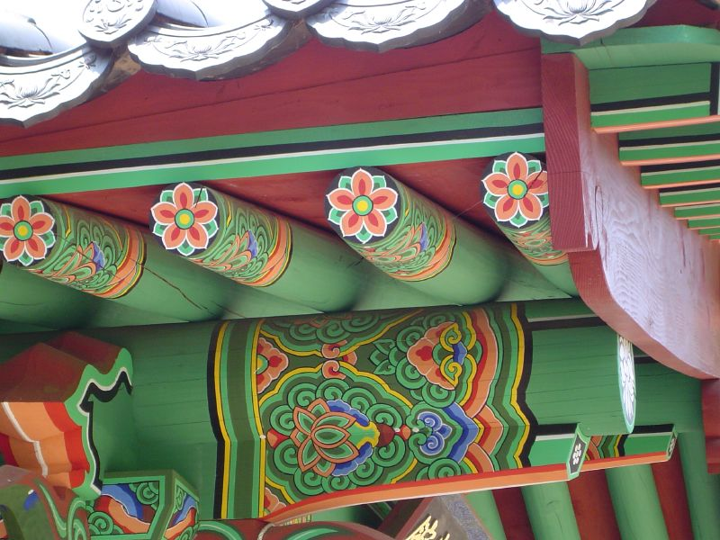 Songgwangsa, one of the most important Seon Buddhist monasteries in Korea and located in Jogyesan - in Songgwang-myeon, Suncheon, Jeollanam-do, South Korea. with Dancheong or traditionally painted eaves. This picture were taken in May 2004.